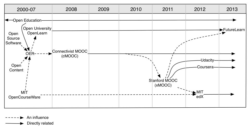 Figure 1 MOOCs and Open Education Timeline p6 Displays a timeline of the development of moocs and open education with respect to various organisational efforts in the areas. Yuan, Li, and Stephen Powell. MOOCs and Open Education: Implications for Higher Education White Paper. University of Bolton: CETIS, 2013.